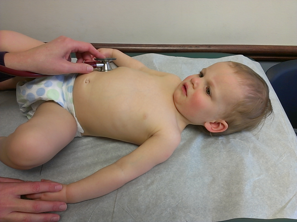 A young girl undergoing a routine physical examination at age 15 months. The pediatrician is using a stethoscope on the child's midsection.